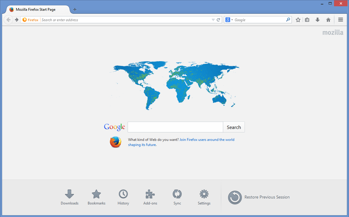 Mozilla Firefox version 29 showing the browser's Start page in Windows 8.1 Update.